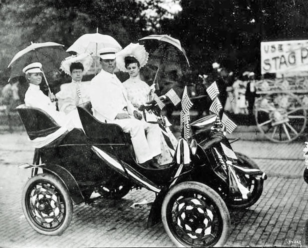 Early automobile in the second Gasparilla parade in Tampa, Florida, 1905